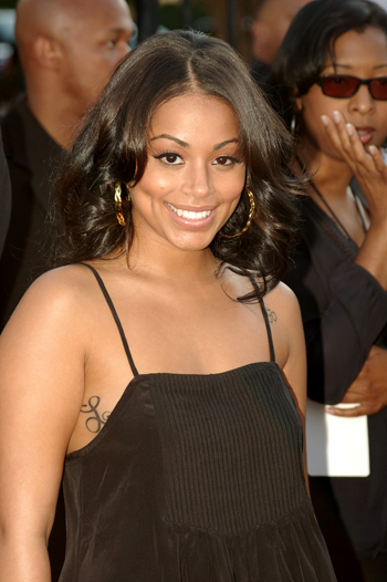 Lauren London at the BET Hip Hop Awards in Atlanta.